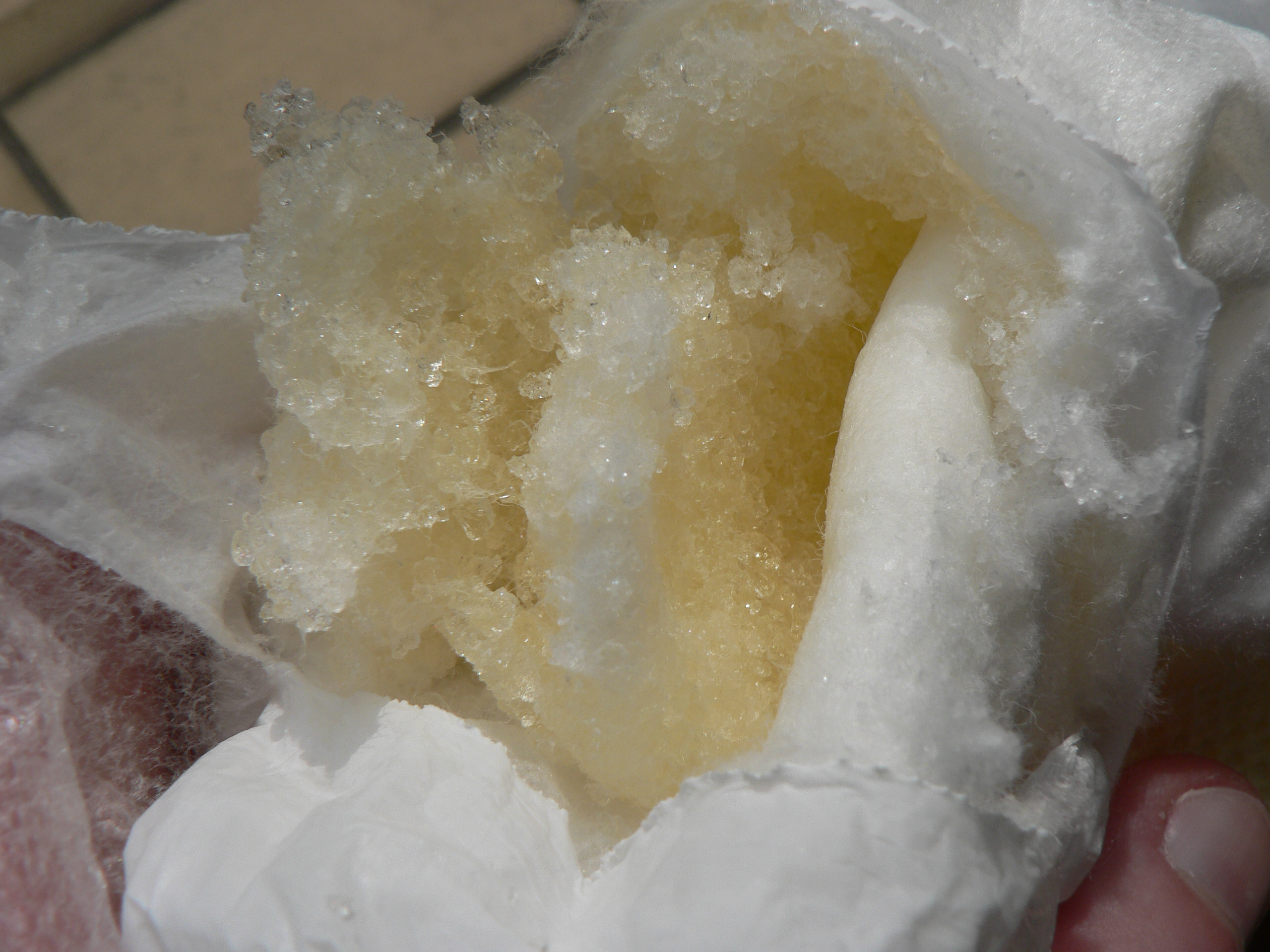 diaper: absorbing inside